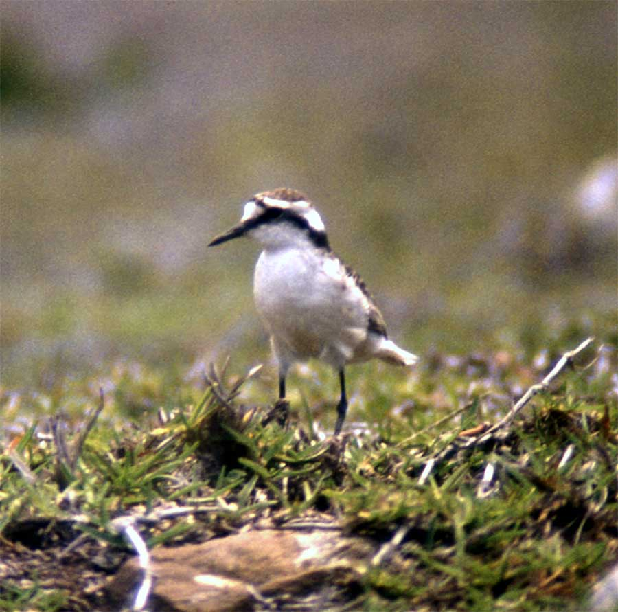 The St Helena Plover (wirebird) (Charadrius sanctaehelenae). Source: Photograph by Andrew Neaum. Image taken 1985. Slide scanned, edited and uploaded by Peter Neaum, 2007.